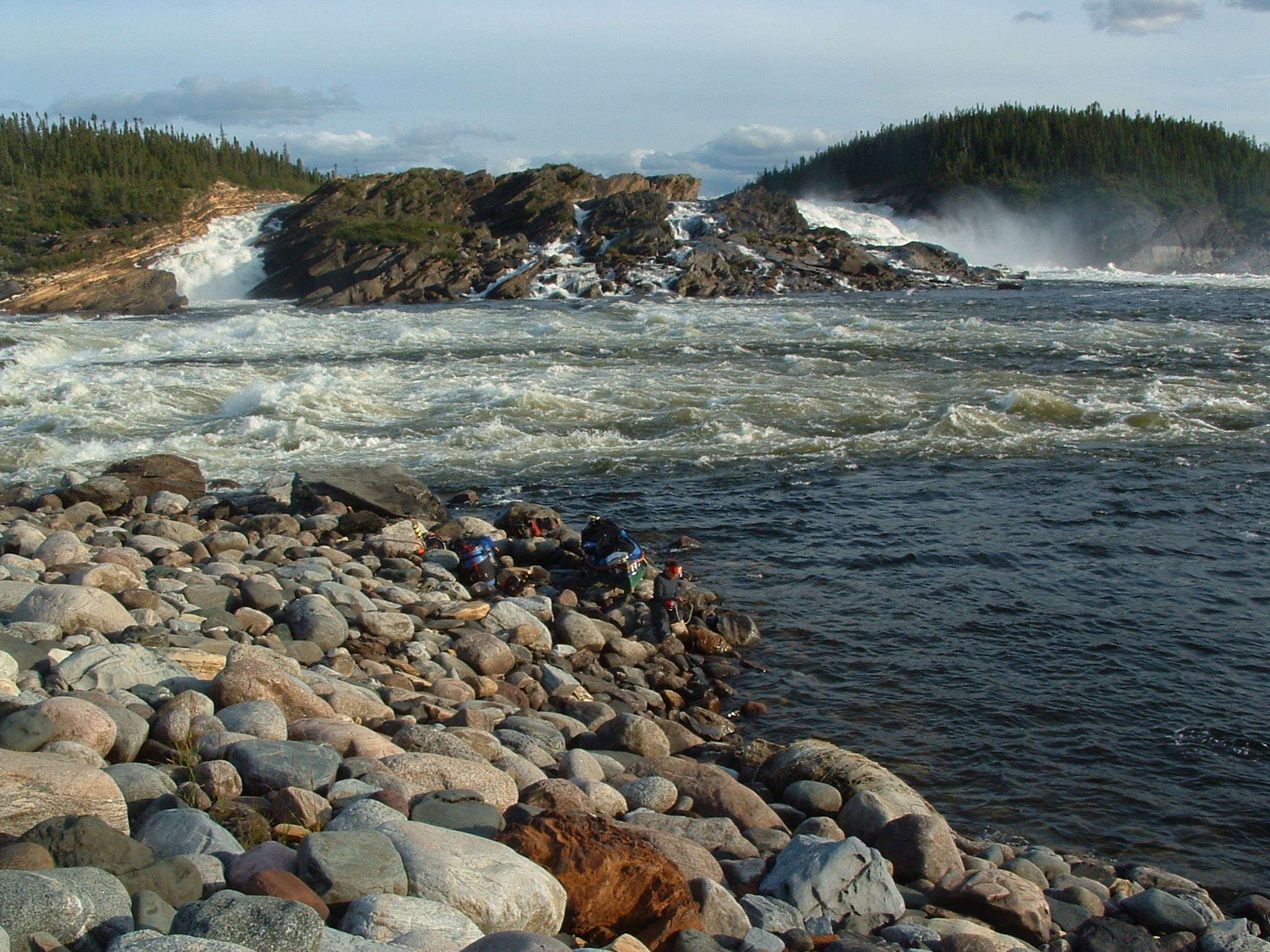 Limestone Falls, Caniapiscau River